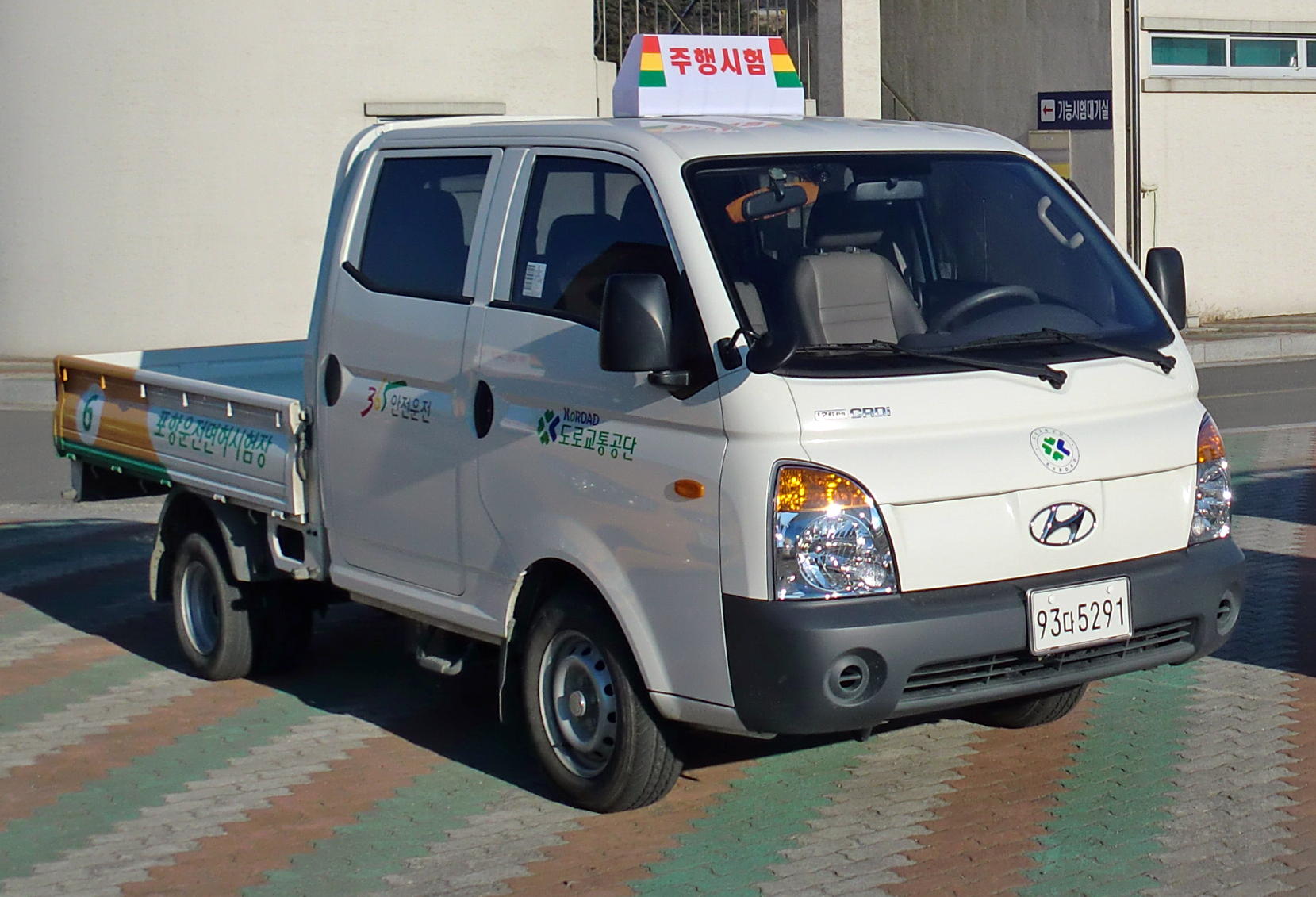 A fourth generation double-cab Hyundai Porter used as driver's exam truck in South Korea.